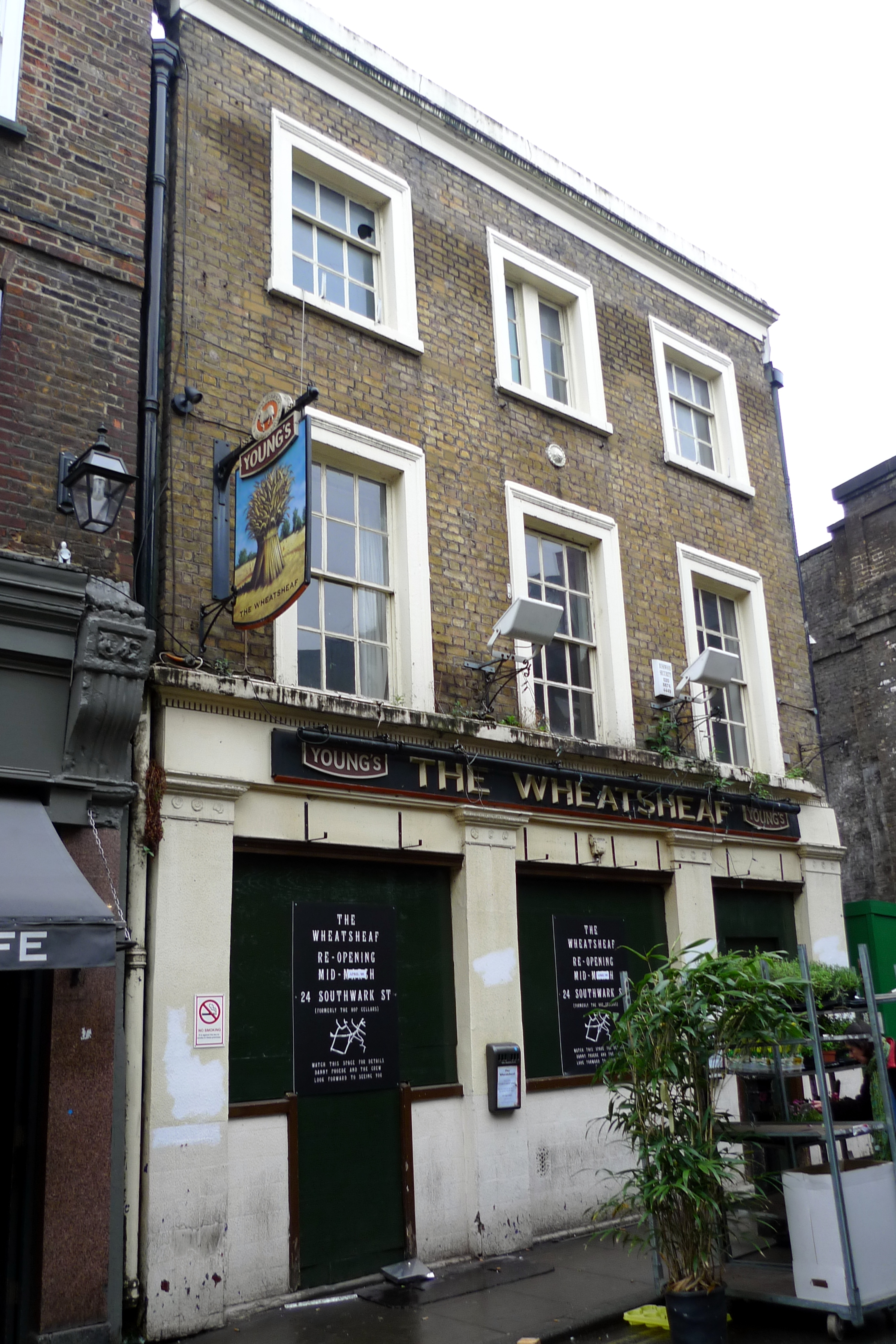 A once decent Young's pub alongside Borough Market, now closed for work to the Thameslink railway. It may reopen in future, but for now has relocated around the corner to the Hop Exchange building. (Photo of it when open.)